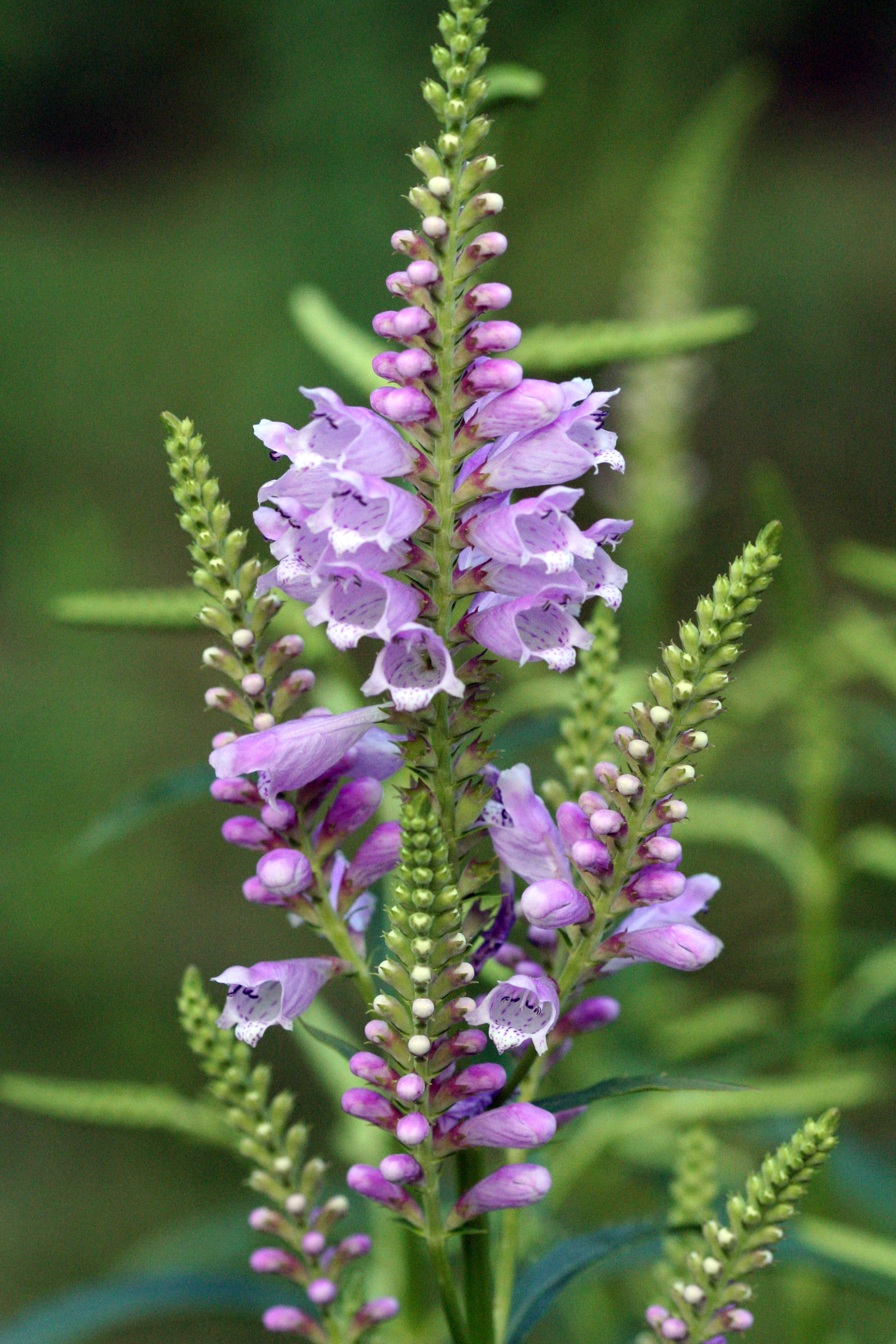 Physostegia virginiana (L.) Benth. - obedient plant - Town of Skaneateles, New York